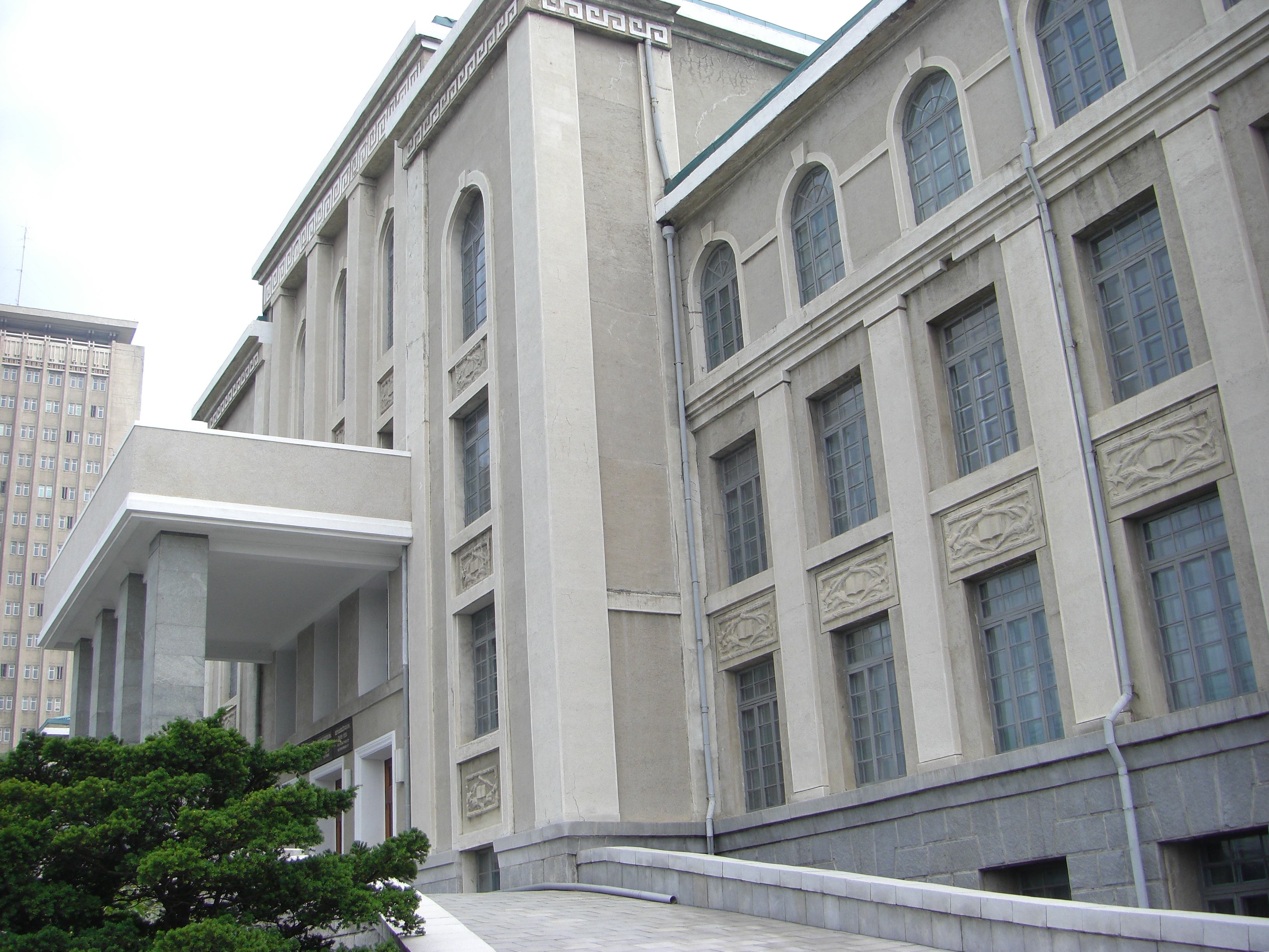 Trip to North Korea in June, 2008